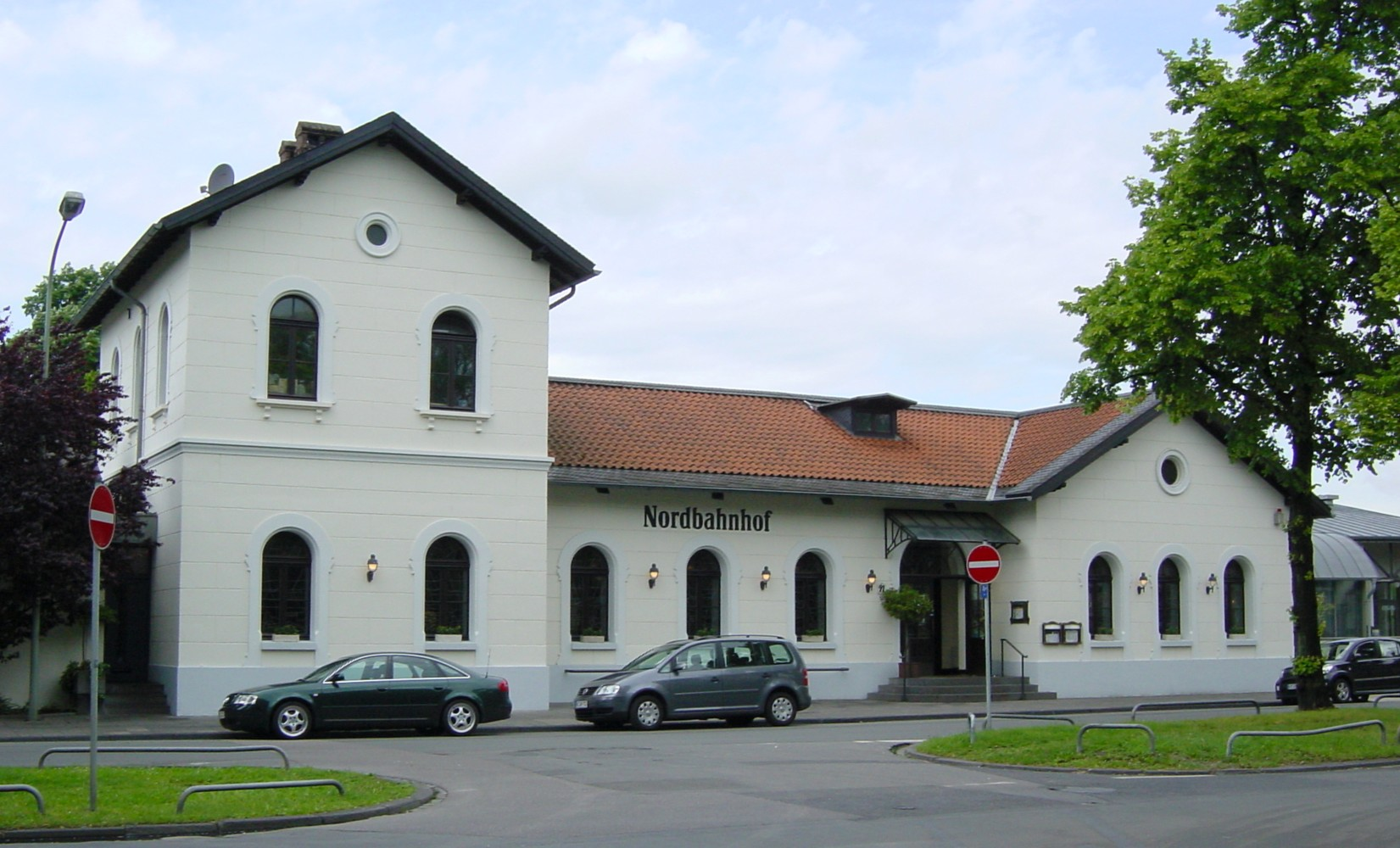 Description: Nordbahnhof, Krefeld Date: 22.5.2006 Author: DER UNFASSBARE